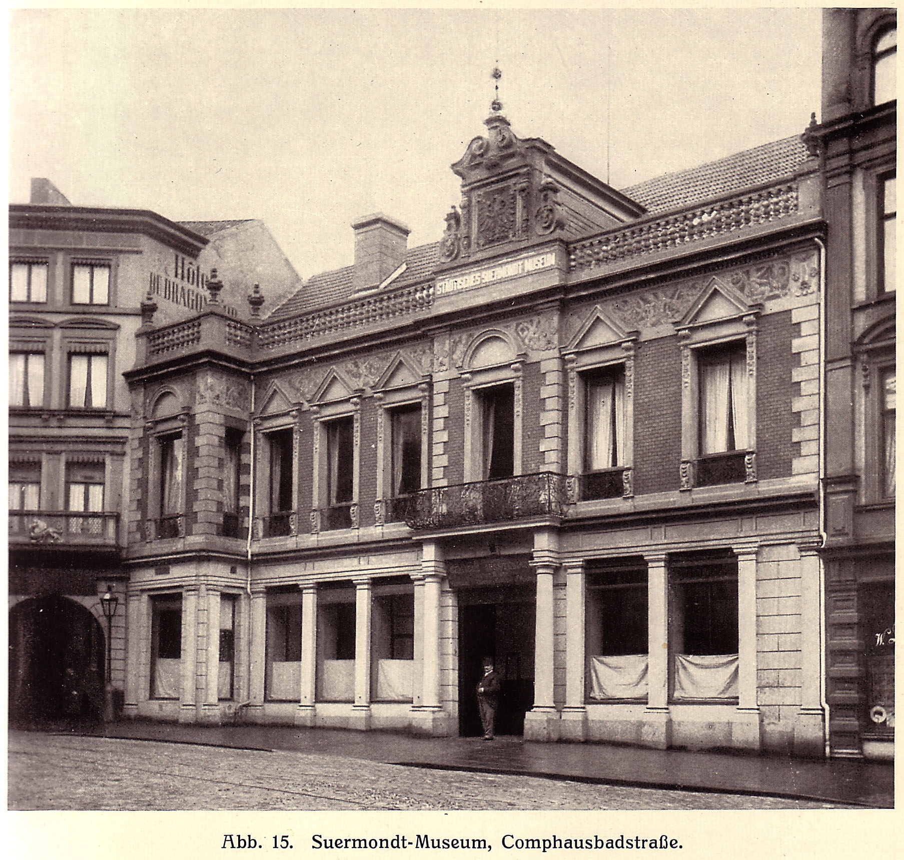 Old Suermondt-Museum in Aachen (Comphausbadstraße) arround 1900